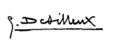 Signature of Servaix Joseph Detilleux